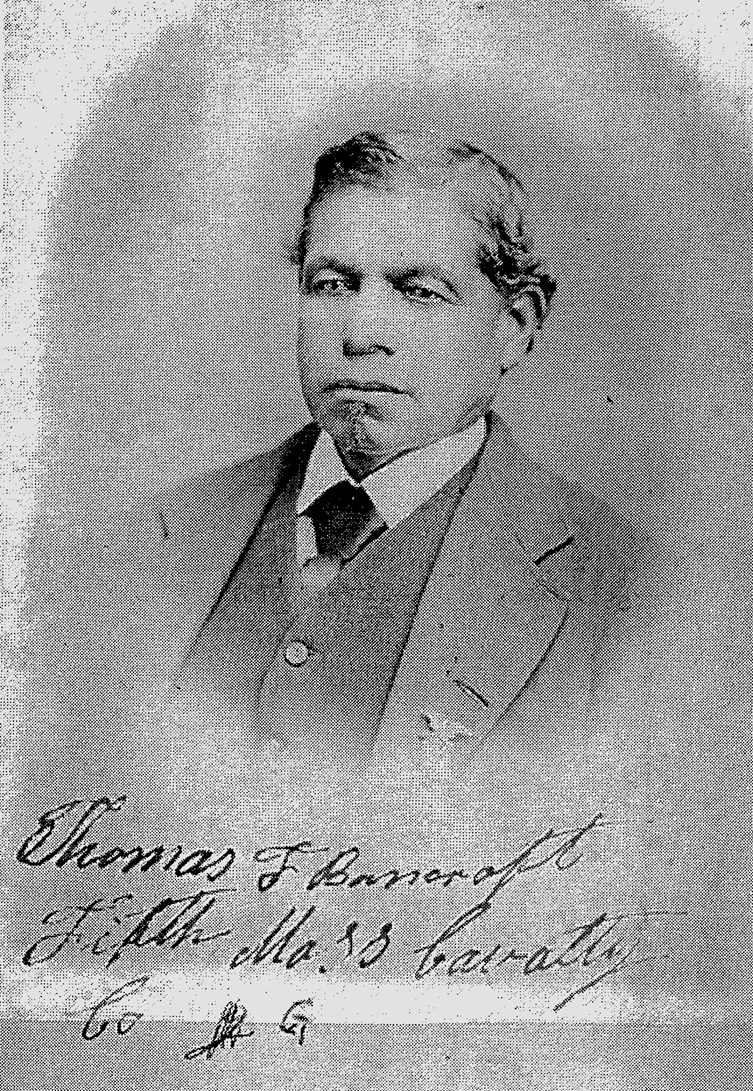 Thomas F. Bancroft, descendant of Ponkapoag Indians via his mother and father. Civil war veteran.